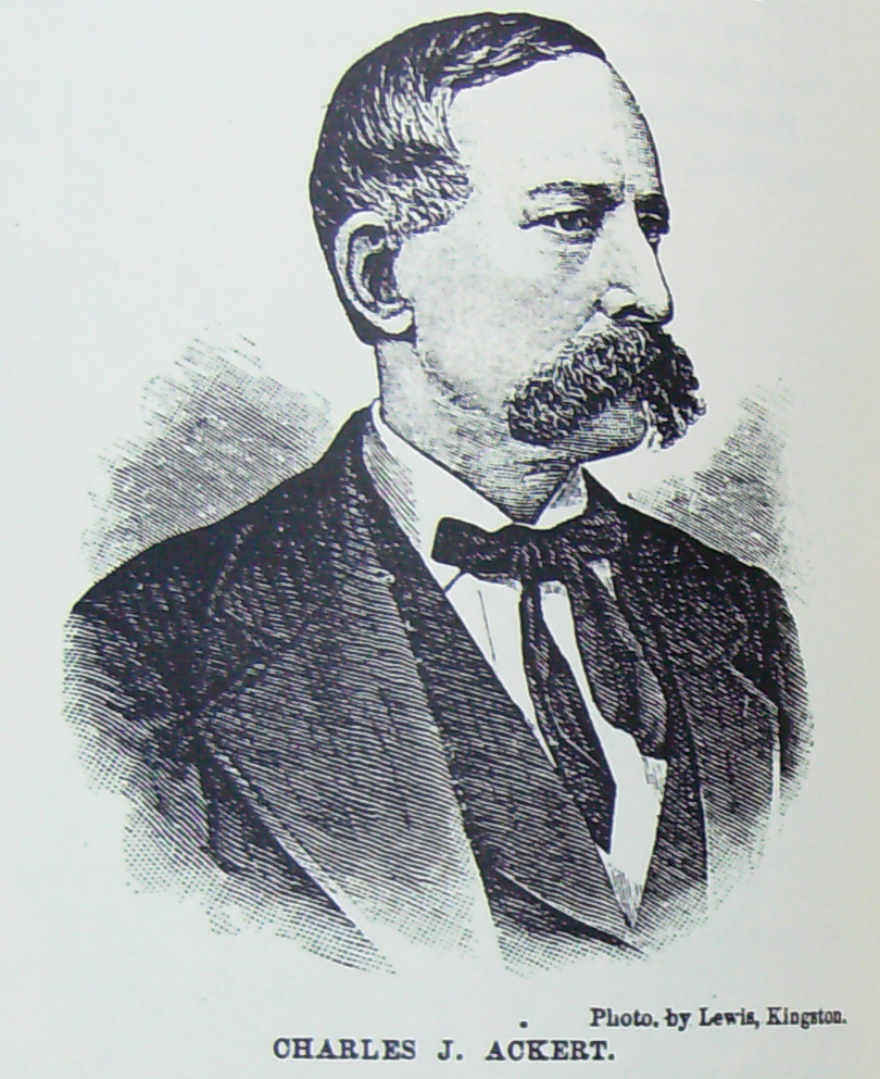 An illustration of Charles J. Ackert, publisher of the first newspaper in New Paltz, New York.